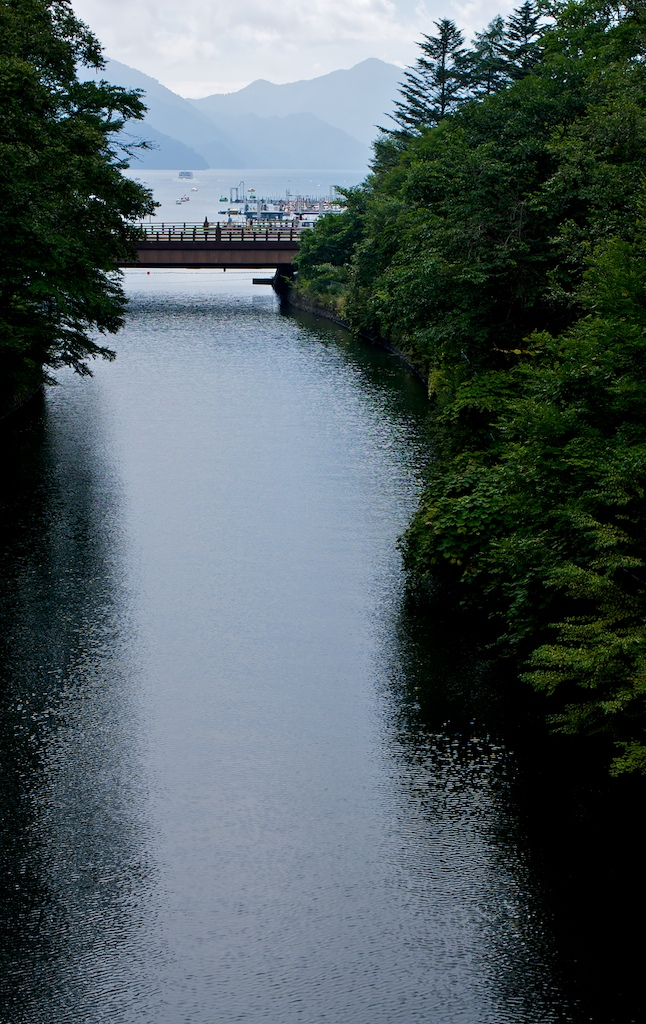 The Daiya River emerging from Lake Chūzenji. It drains through the Kegon Falls.